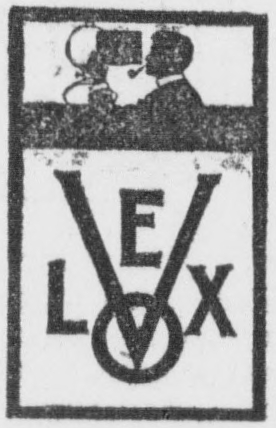 in 1904, this image appeared in an advertisement for Velox photographic paper (as invented by Leo Baekeland).